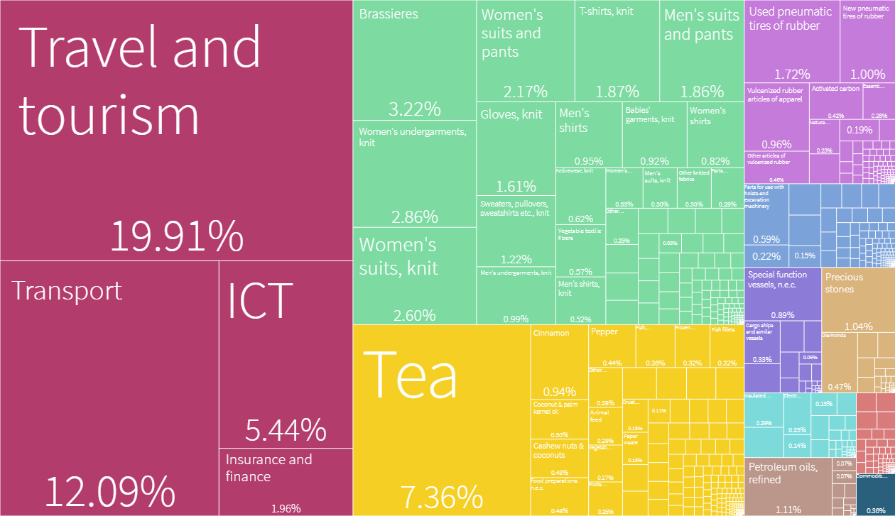 2017 Sri Lanka Products Export Treemap